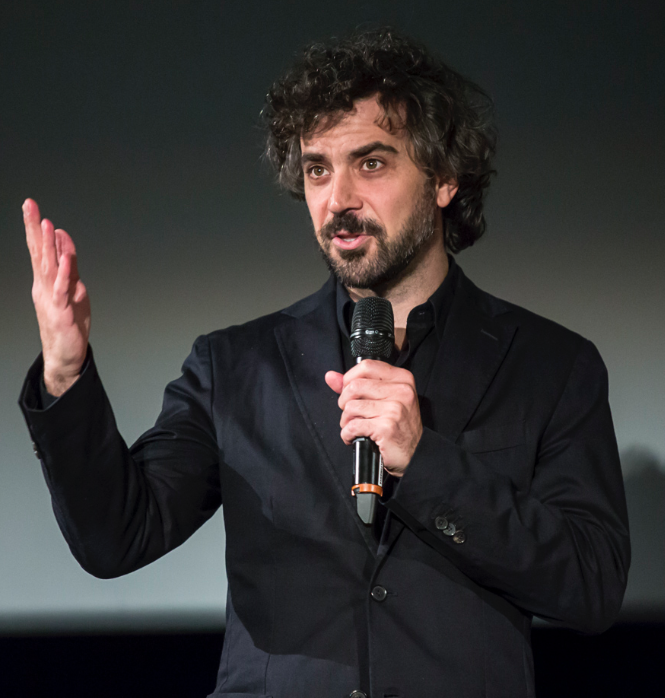 Director presentando Mr.Kaplan